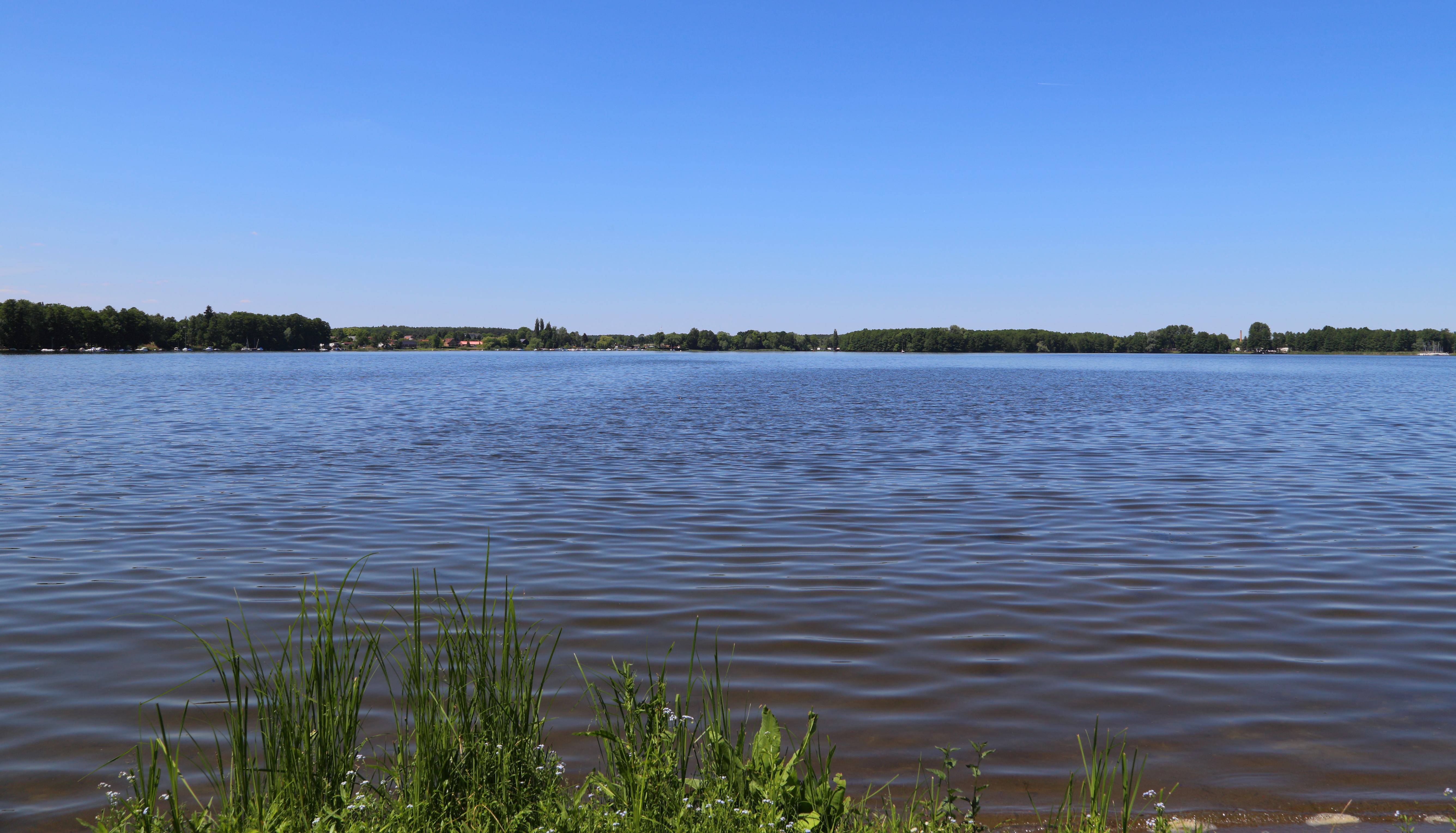 Lake Little Schwieloch (Kleiner Schwielochsee) in Goyatz, district of Schwielochsee, Landkreis Dahme-Spreewald, Brandenburg, Germany.